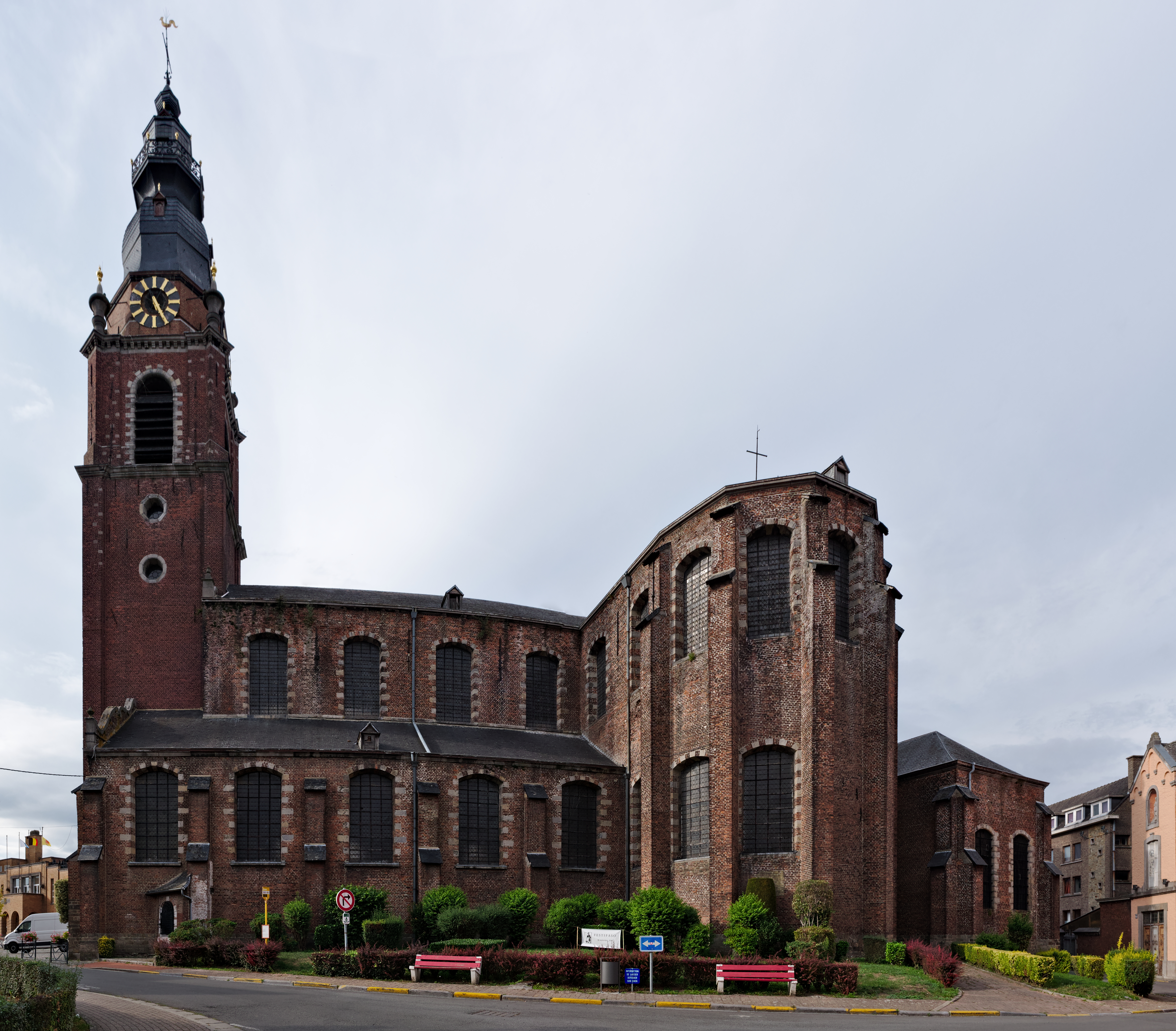 St. Peter church in Leuze-en-Hainaut, Belgium This photo of immovable heritage has been taken in the Walloon Region